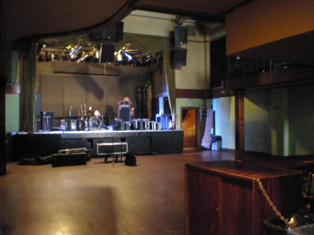 This photo is of Wikipedia Takes Manhattan location code 138, Bowery Ballroom.